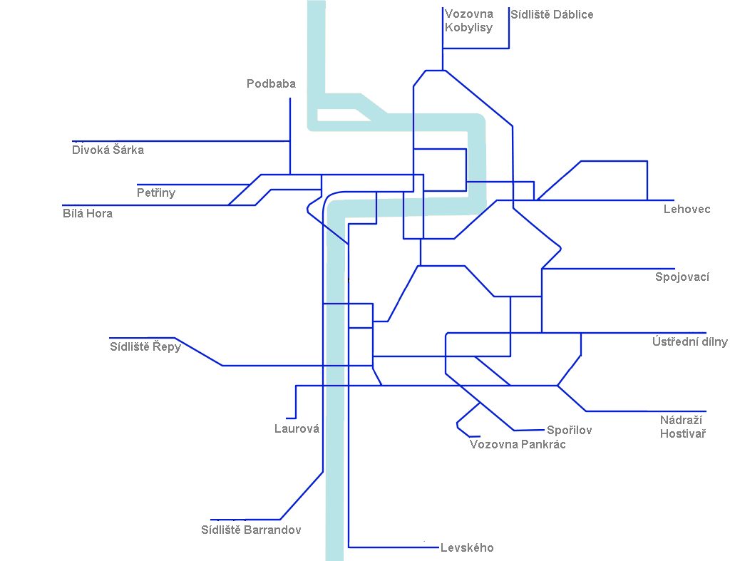 Prague tram network, 2006